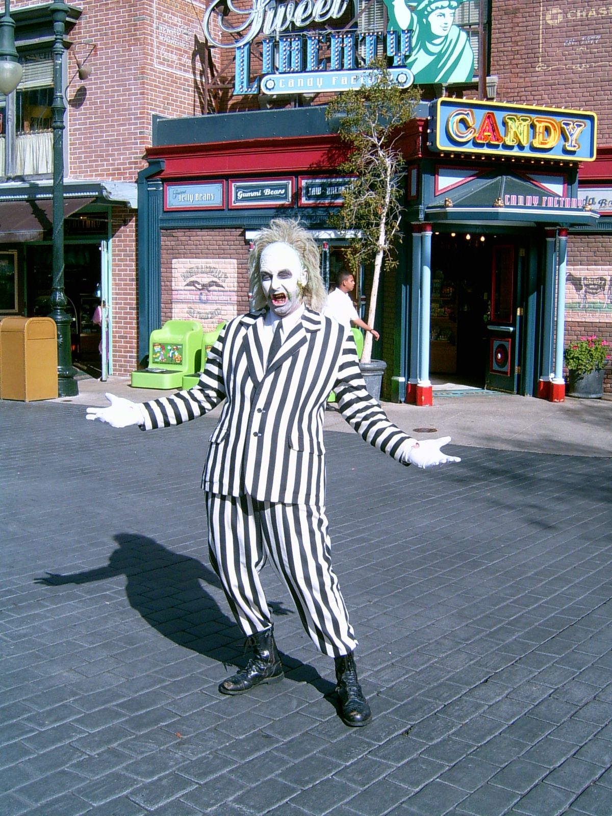 Beetlejuice at Universal Studios Hollywood, CA.